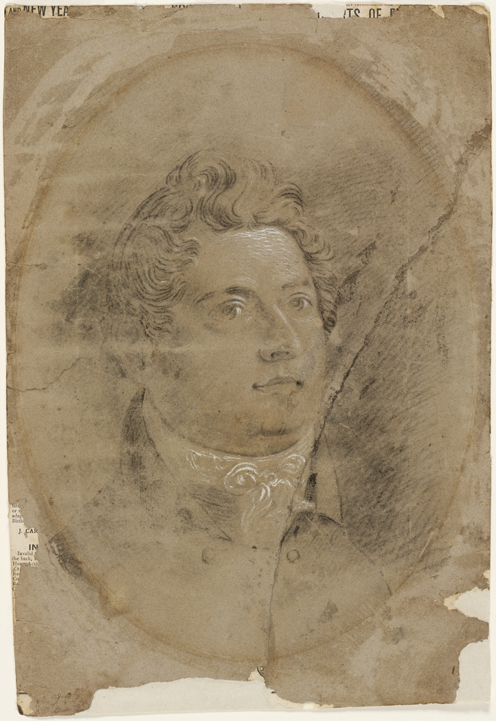 Francis Howard Greenway, 1814-1837, unknown artist, pencil, State Library of New South Wales ML 482